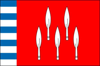 Flag of the Belgian municipality of Meix-devant-Virton